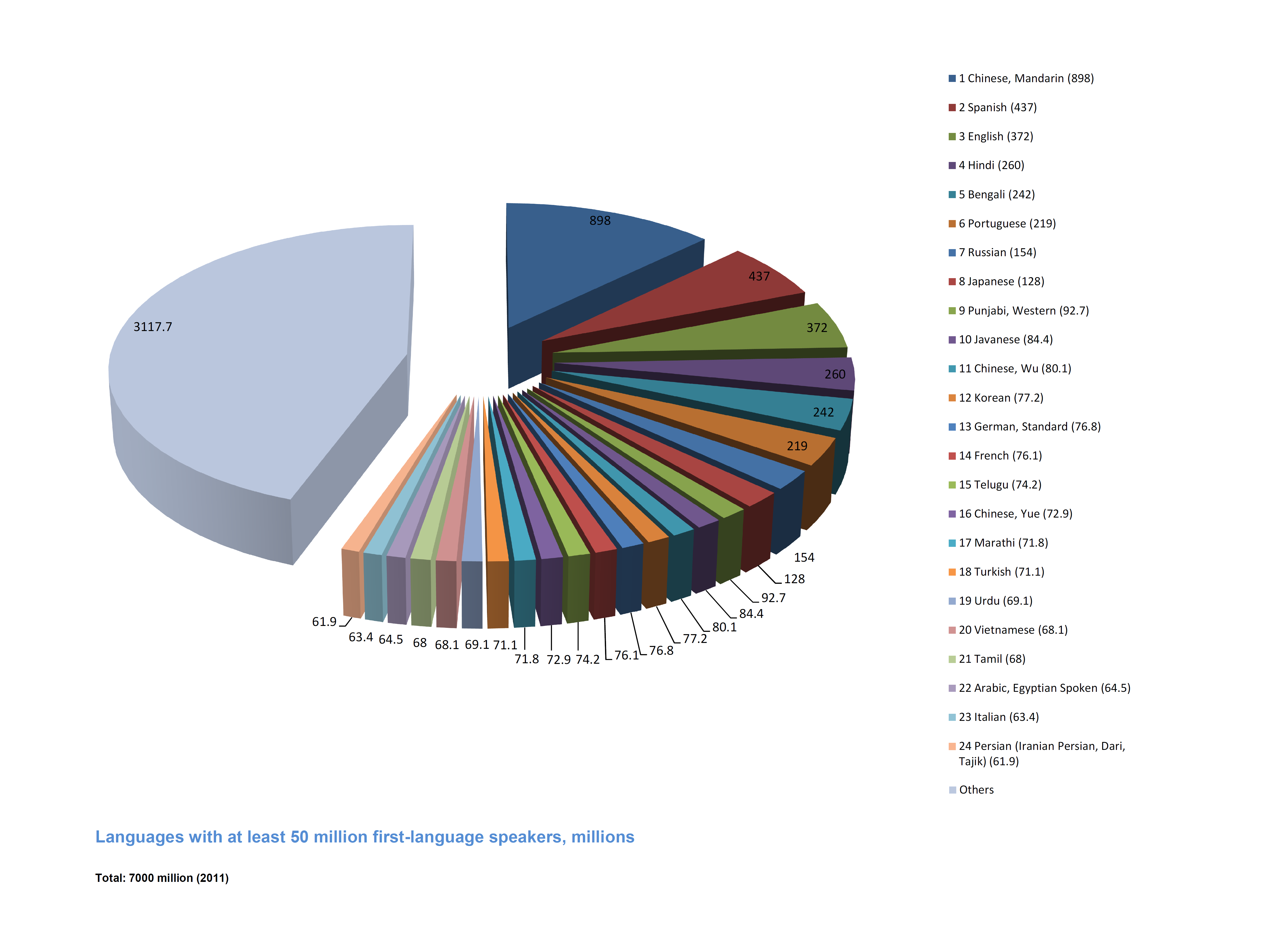 Languages with at least 50 million first-language speakers, millions (according to: Ethnologue, Summary by language size Macrolanguages (chinese, arabic) not included.